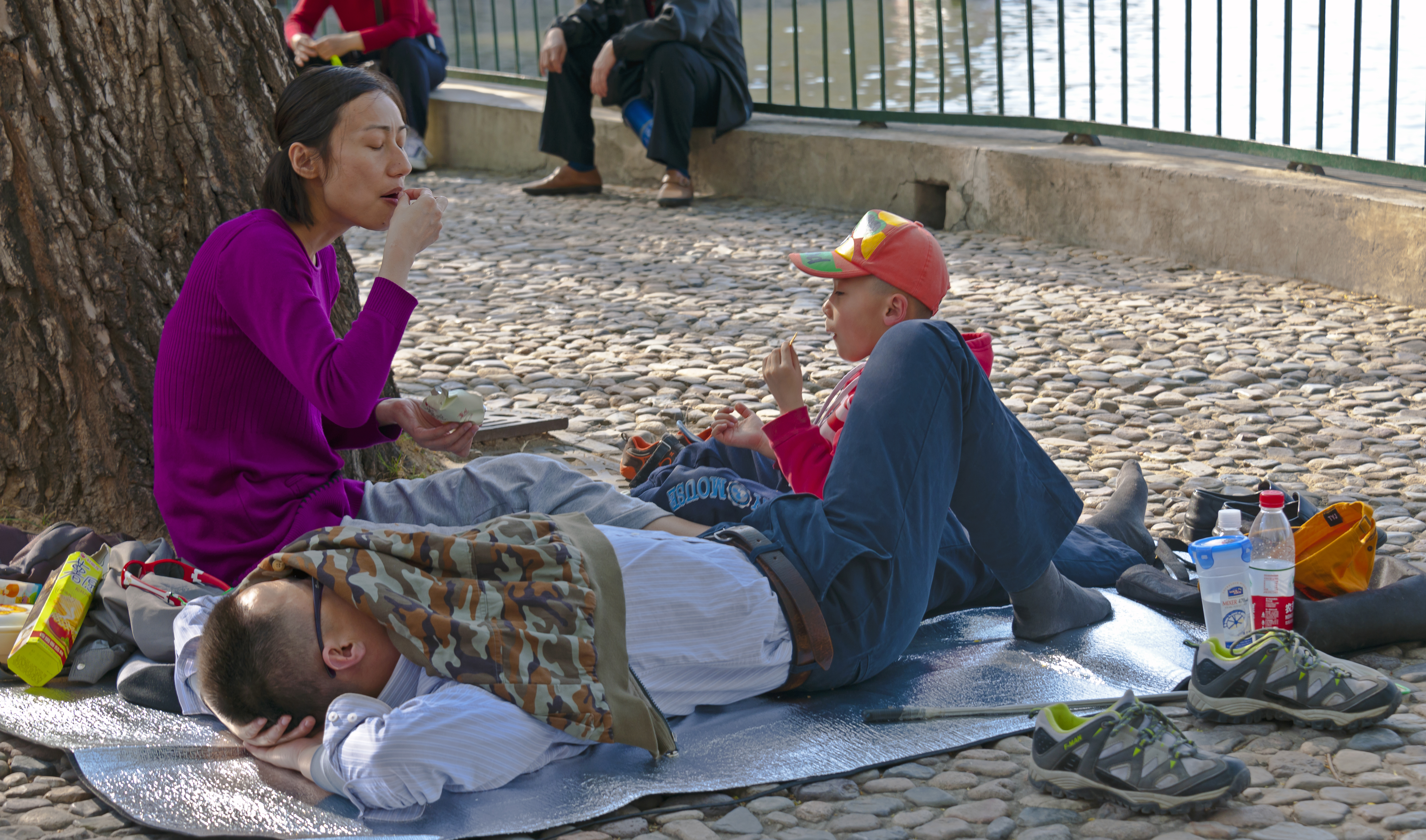 A Chinese family with one child having a little picnic at Beihai Park in Beijing